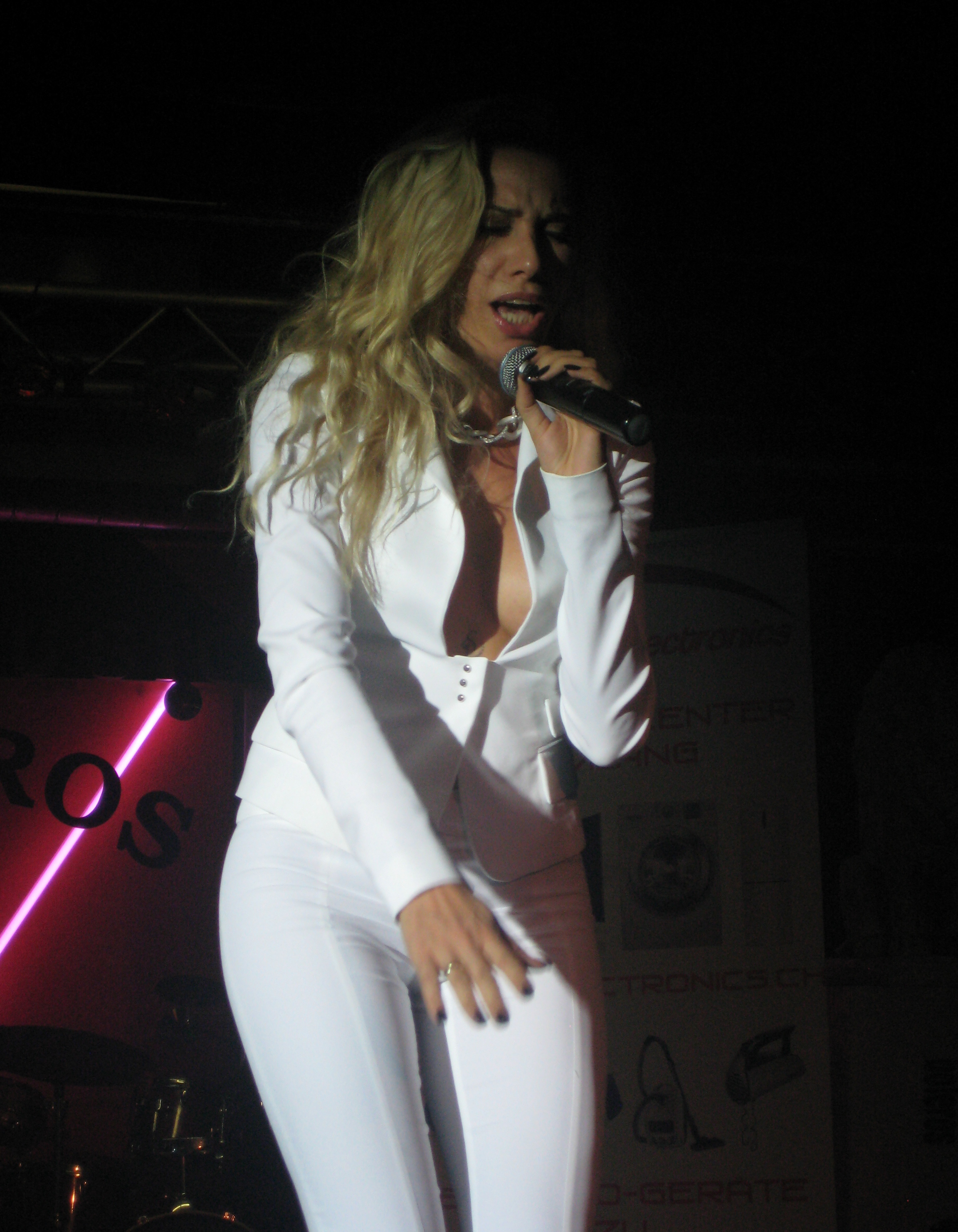 Ledina Çelo at a performance in Zurich